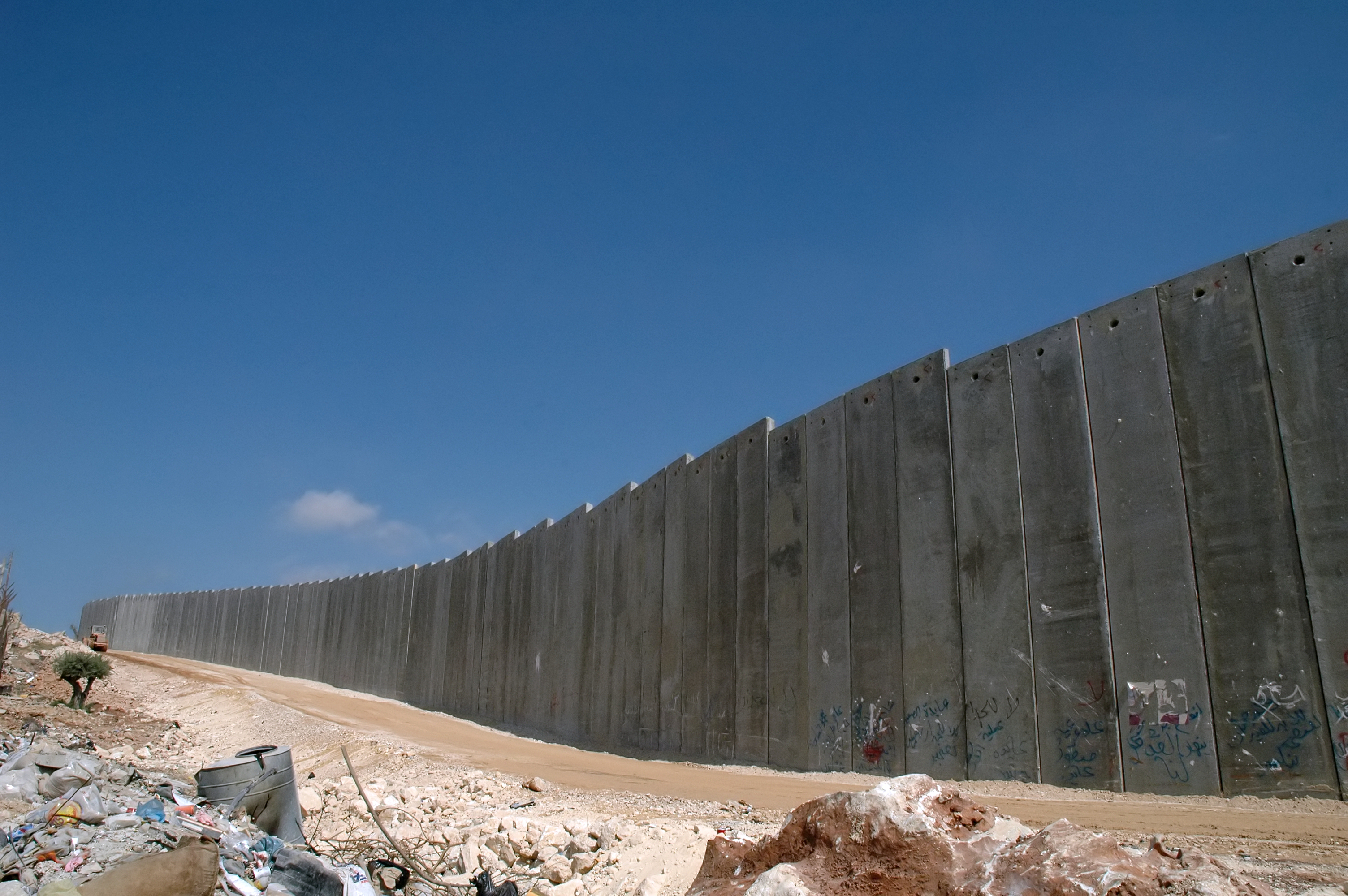 Israel's "Security Fence", "West Bank Barrier", is a solid wall along 5% of it's length. 10 meters high and reinforced concrete.